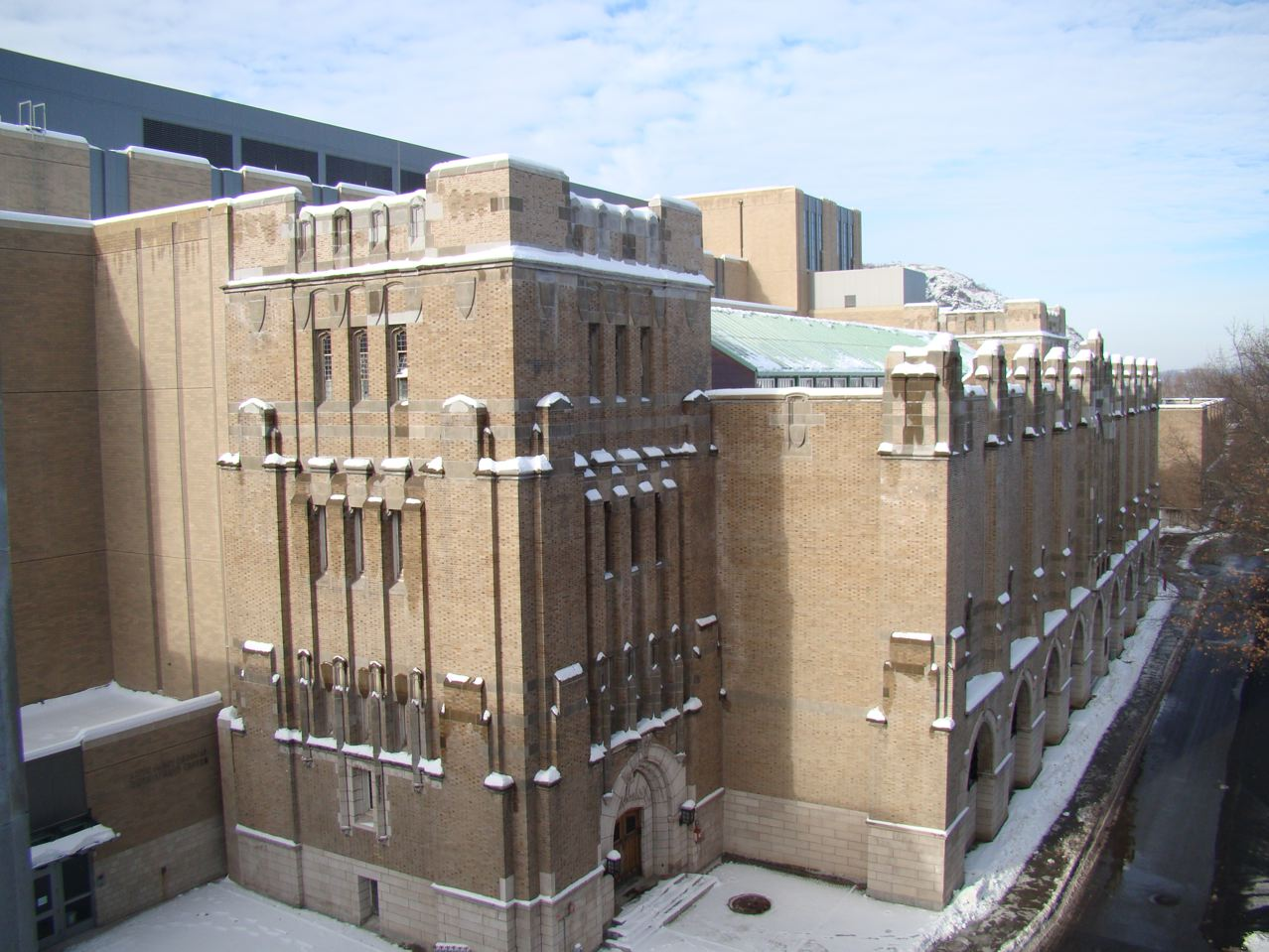 Hayes Gymnasium at West Point, viewed from Scott Barracks, looking north